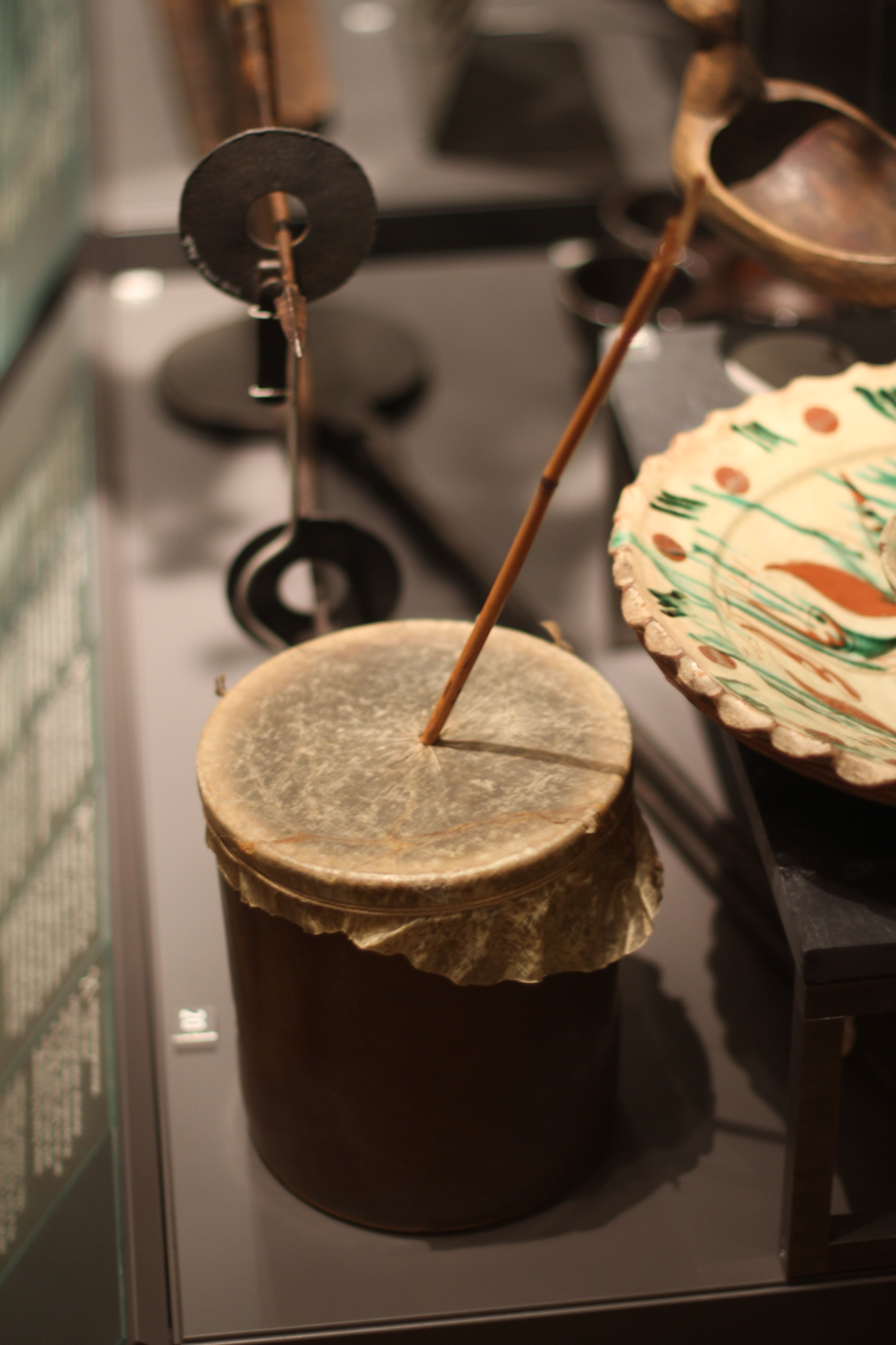 Friction pot (rummelpot) at the National Museum of Denmark.